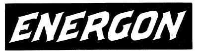 Logo of Energon, from a 1913 advertisement